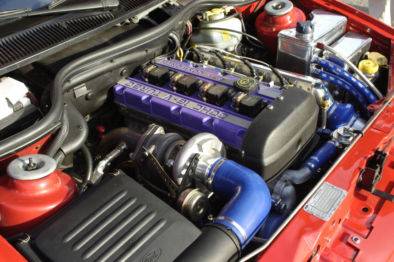 Ford Escort Cosworth engine bay.